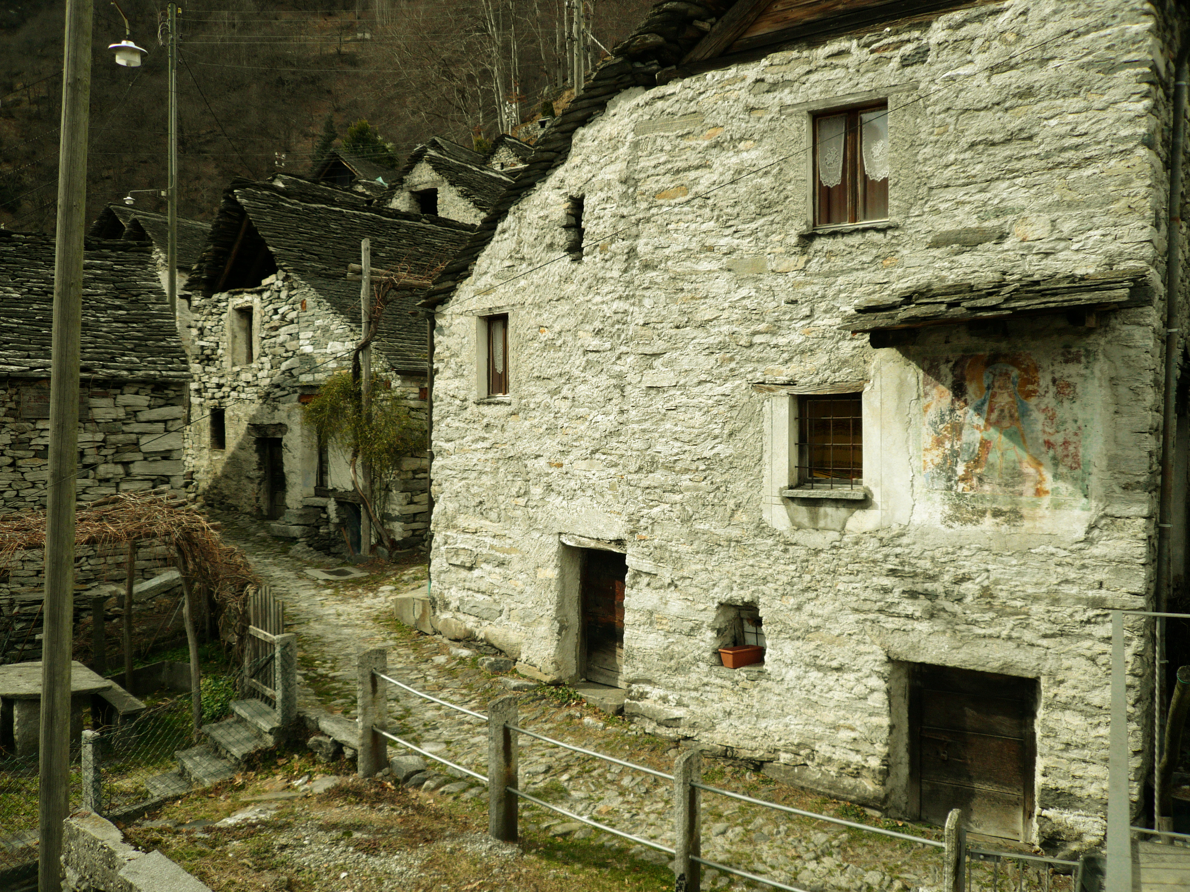 Street in the Village of Corippo, Ticino